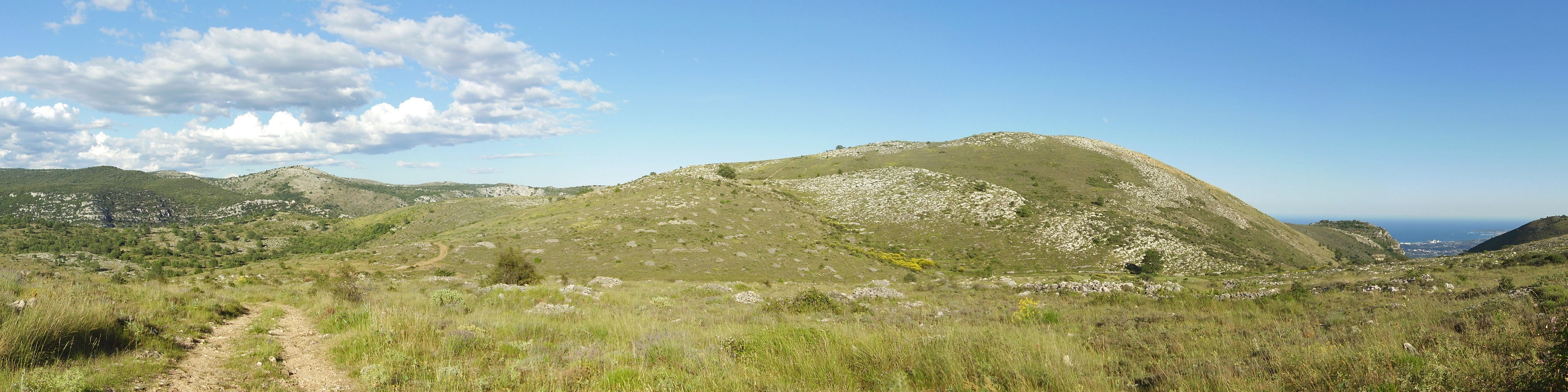 The plan des Noves, in the hills around Vence (Alpes-Maritimes, France). Panorama made from multiple shots with hugin.